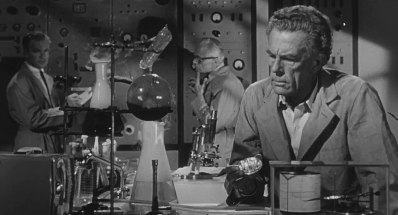 Friedrich von Ledebur (right) in The 27th Day - trailer (cropped screenshot)